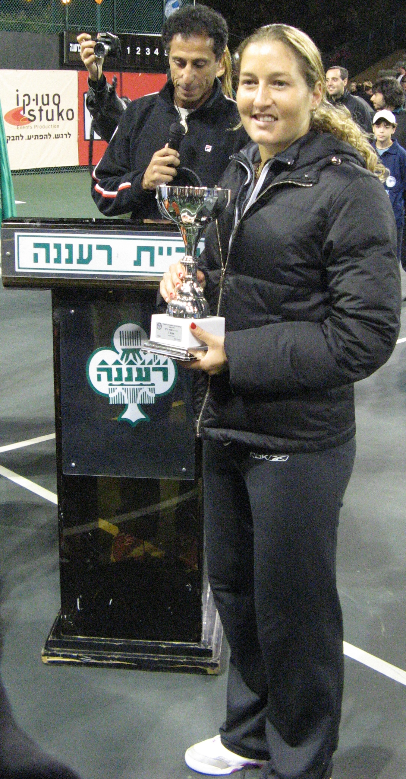 Israeli tennis player Shahar Pe'er holds the cup after wining the Israel tennis championship 2008